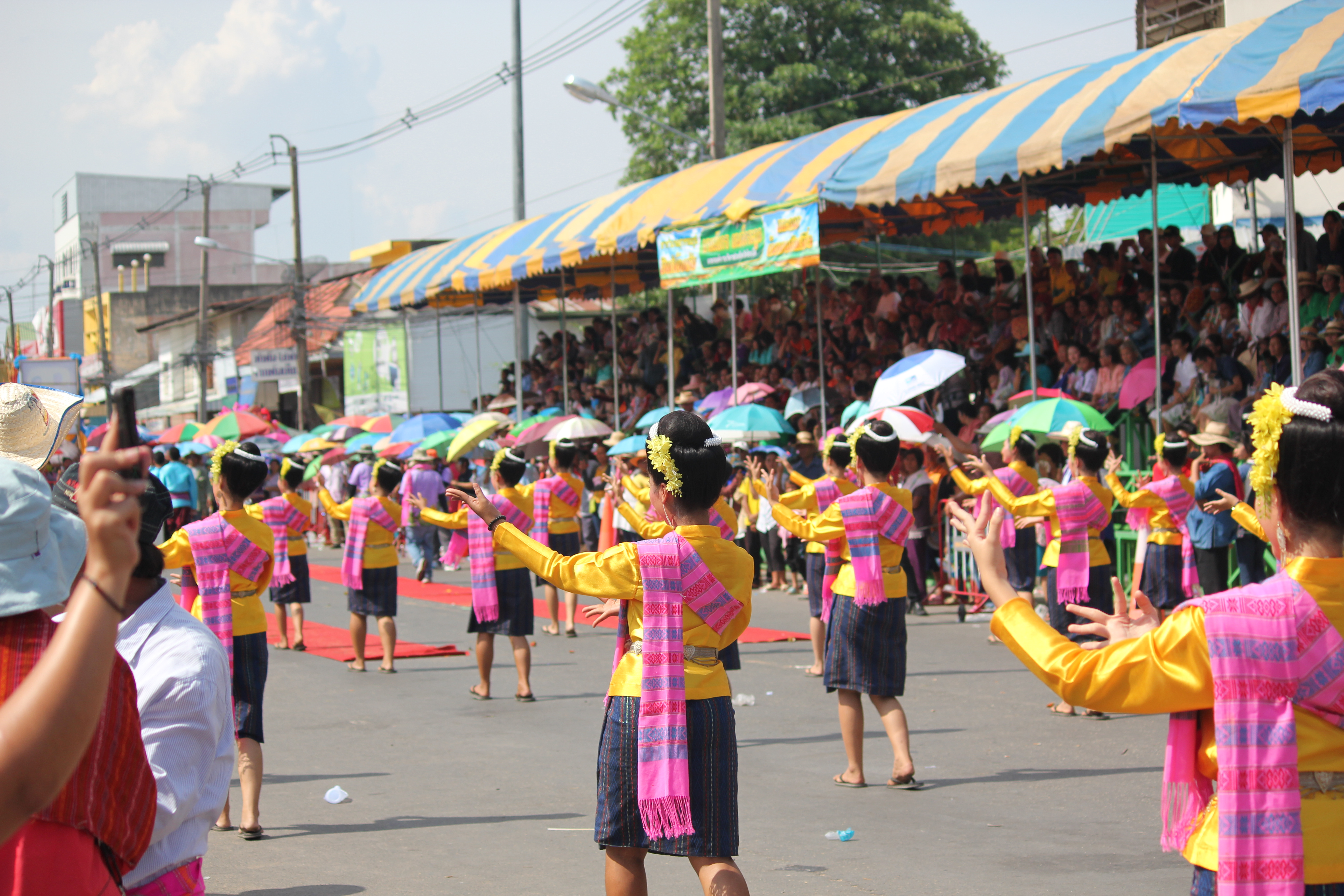 Bung Fai dance in Suwannaphum , Roi Et